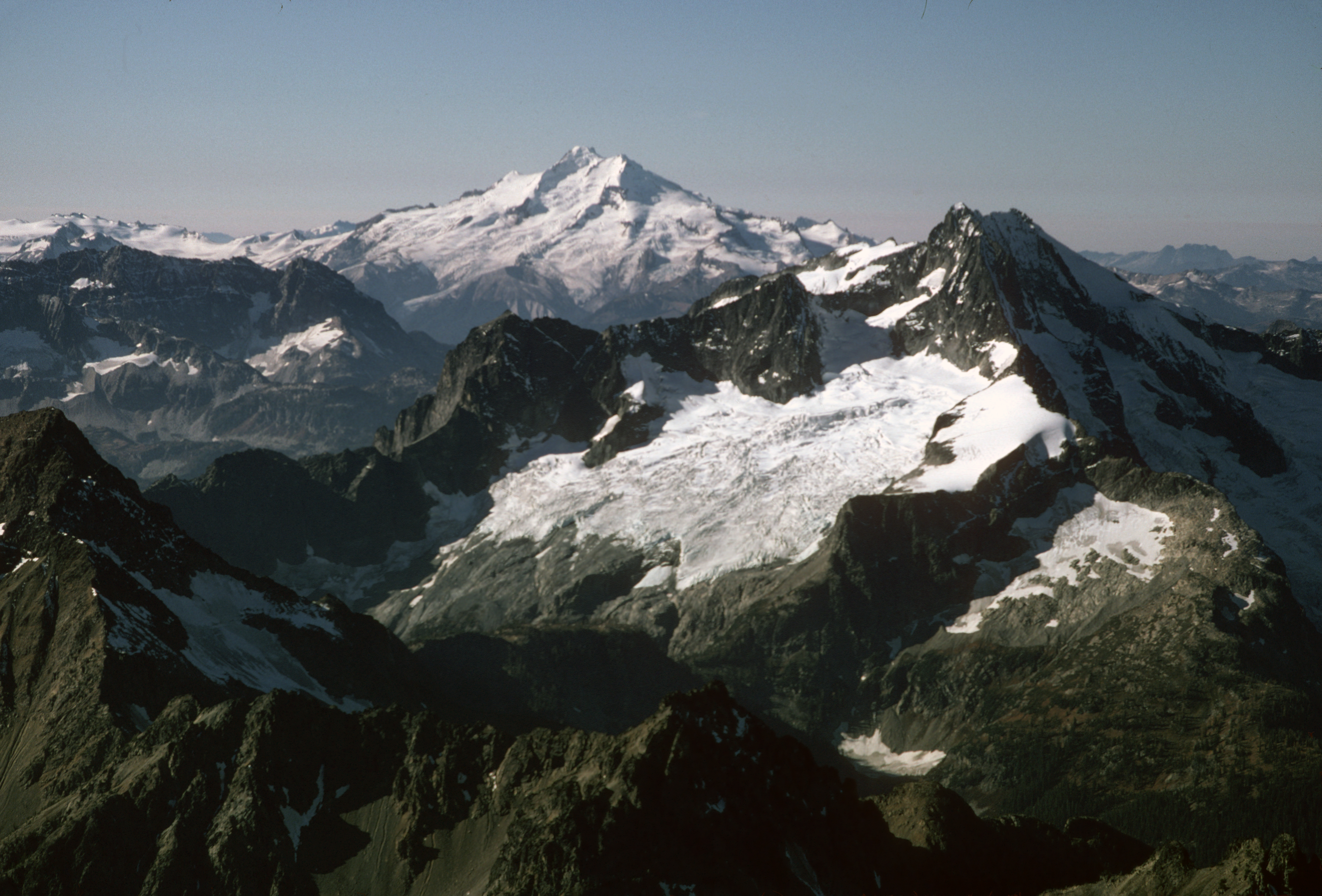 Alpine Lakes Wilderness, Okanogan-Wenatchee National Forest